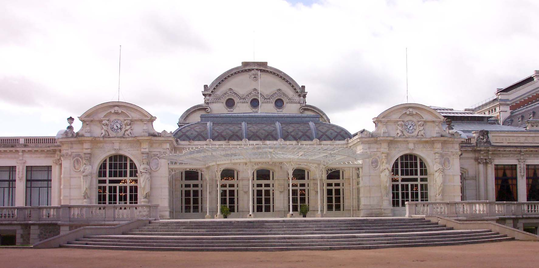 Palais des Congrès and Opera of Vichy (Allier).